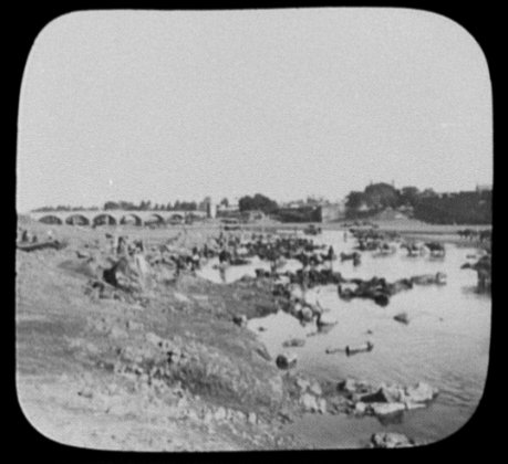 This is scene of Musi River in Hyderabad,India. See description at